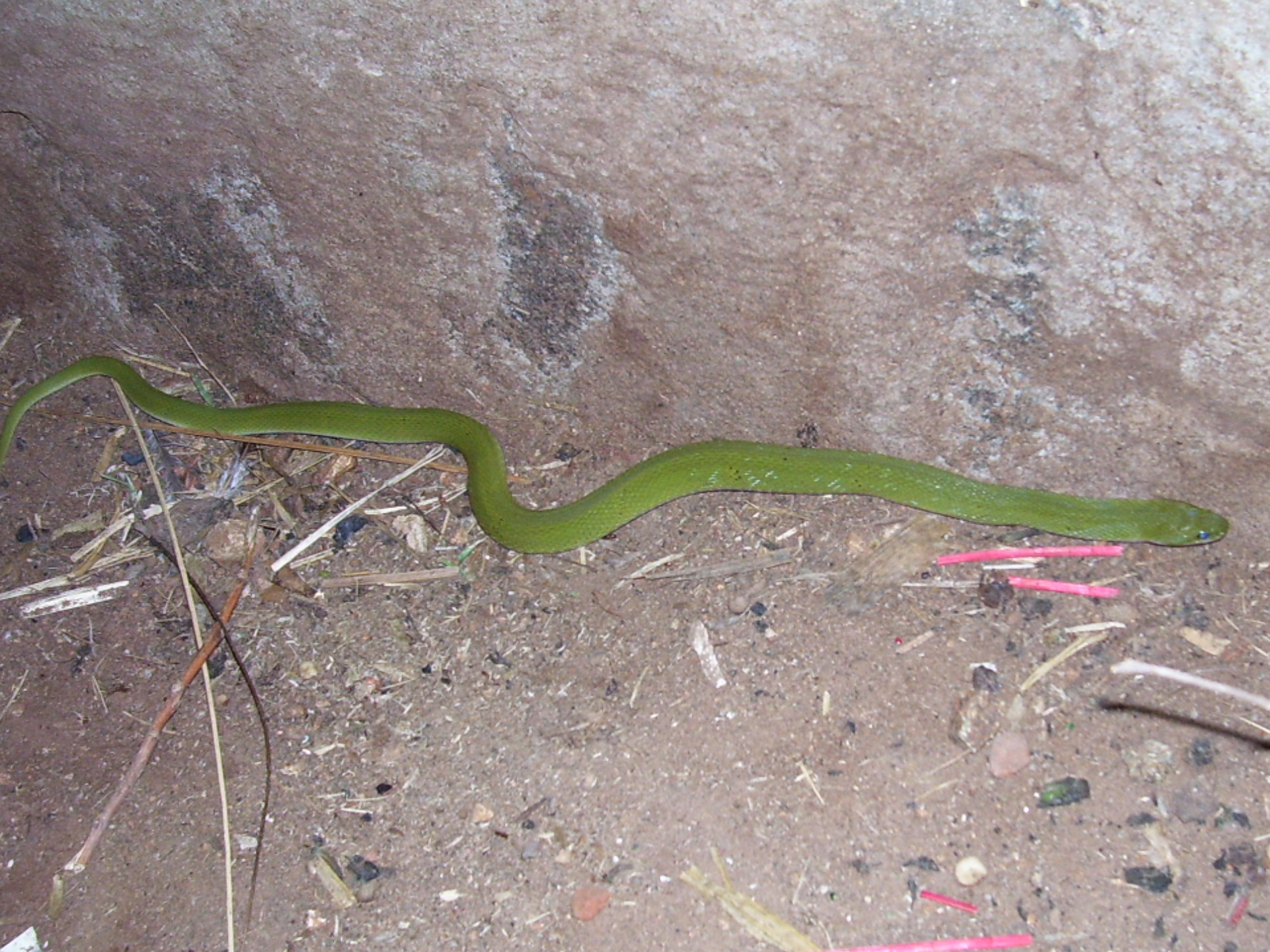 Green Keelback from BR Hills